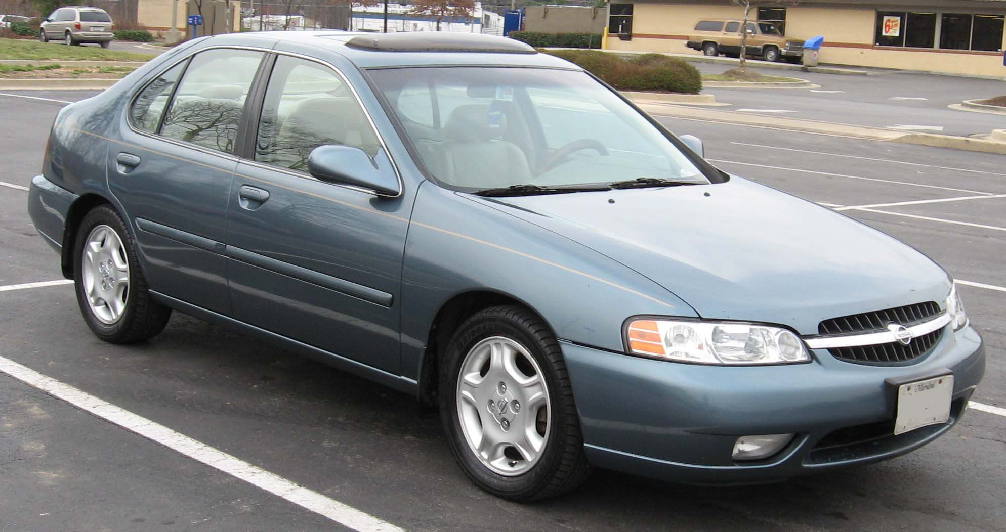 2000-2001 Nissan Altima photographed in USA.